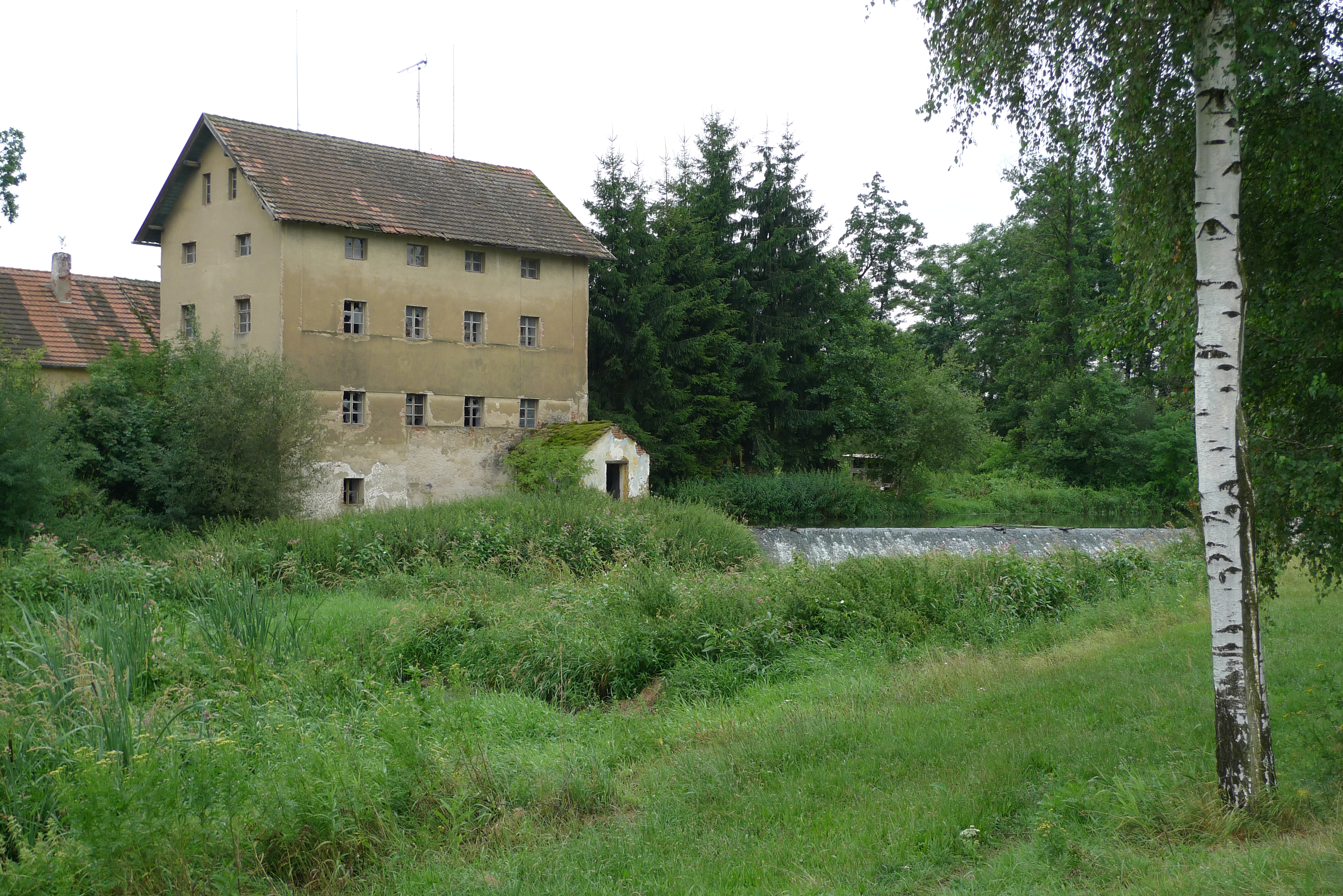 Village of Buzice in southern Bohemia.